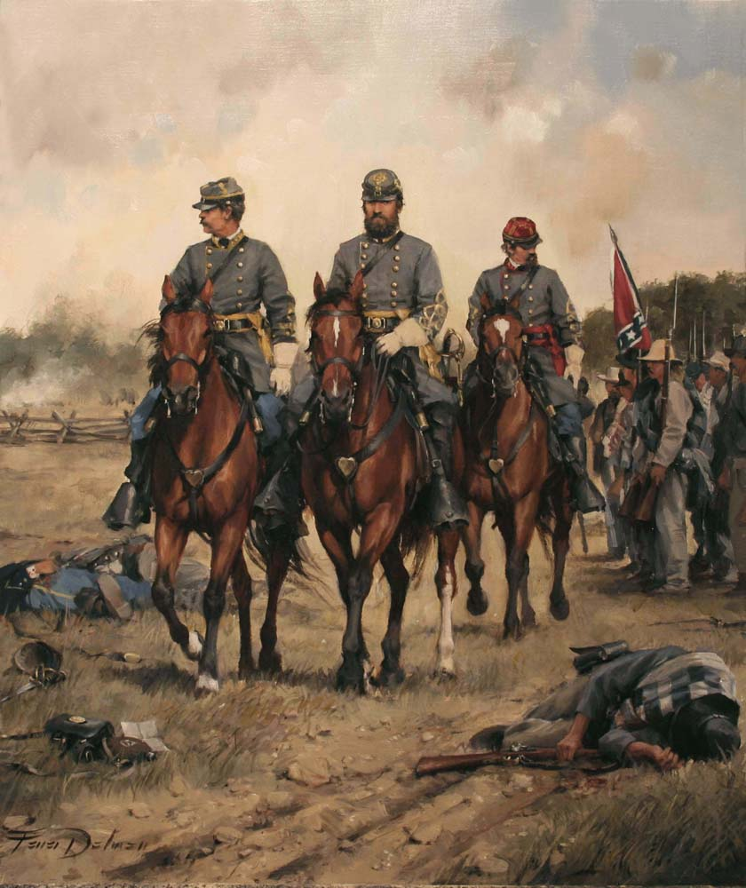 Jackson